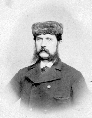 Photo taken 1869 Photograper Unknown BC Archives #A-02149 [1]